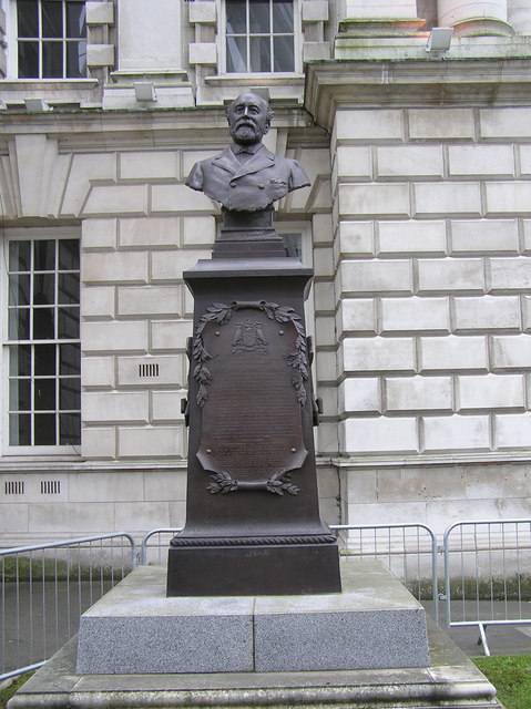 Statue at Belfast City Hall It is located in the grounds